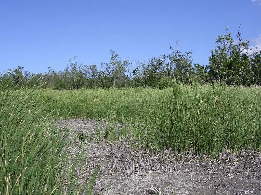 Tall sedgeland at Lake Onu Laran near Foho Lulik, Covalima, Timor-Leste